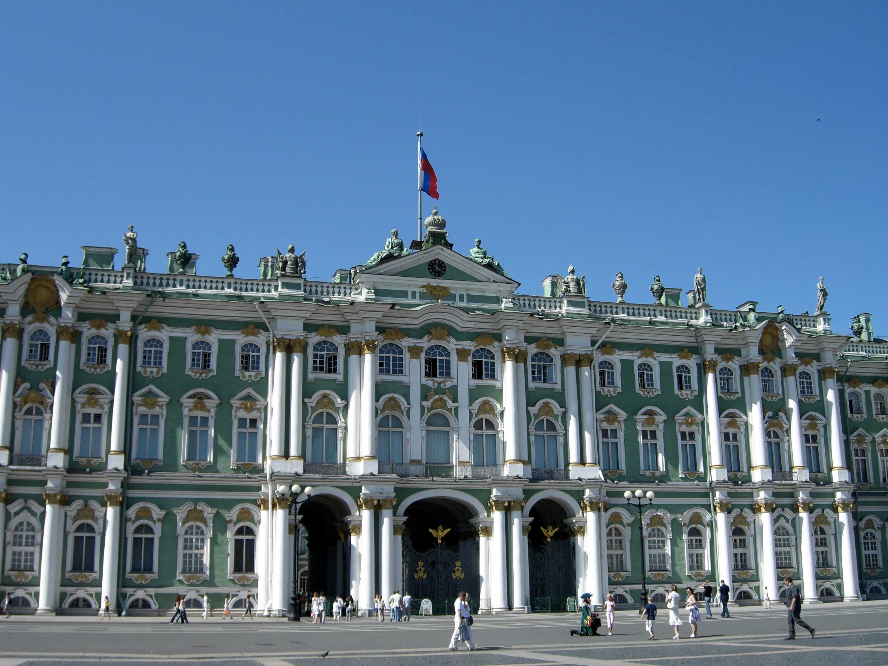 Front view of Winter Palace, where Russian Tsars used to spend their winter months hiding the bitter cold.